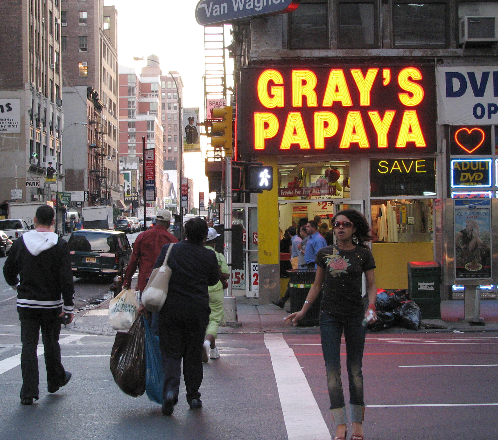 Gray's Papaya, Midtown West, Eighth Ave. at 37th St.